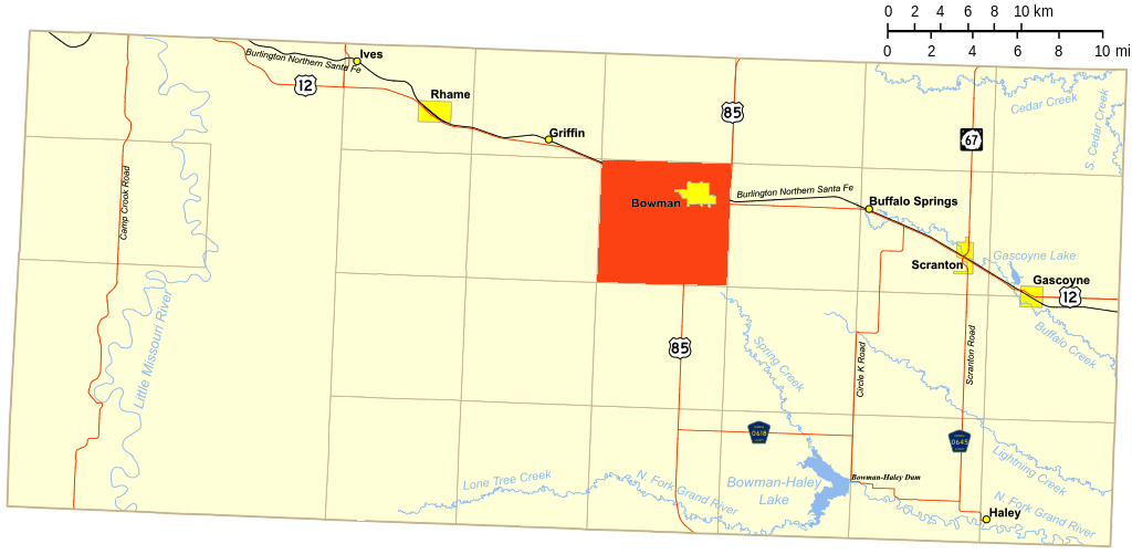 Map of Bowman County, North Dakota with Bowman Township highlighted